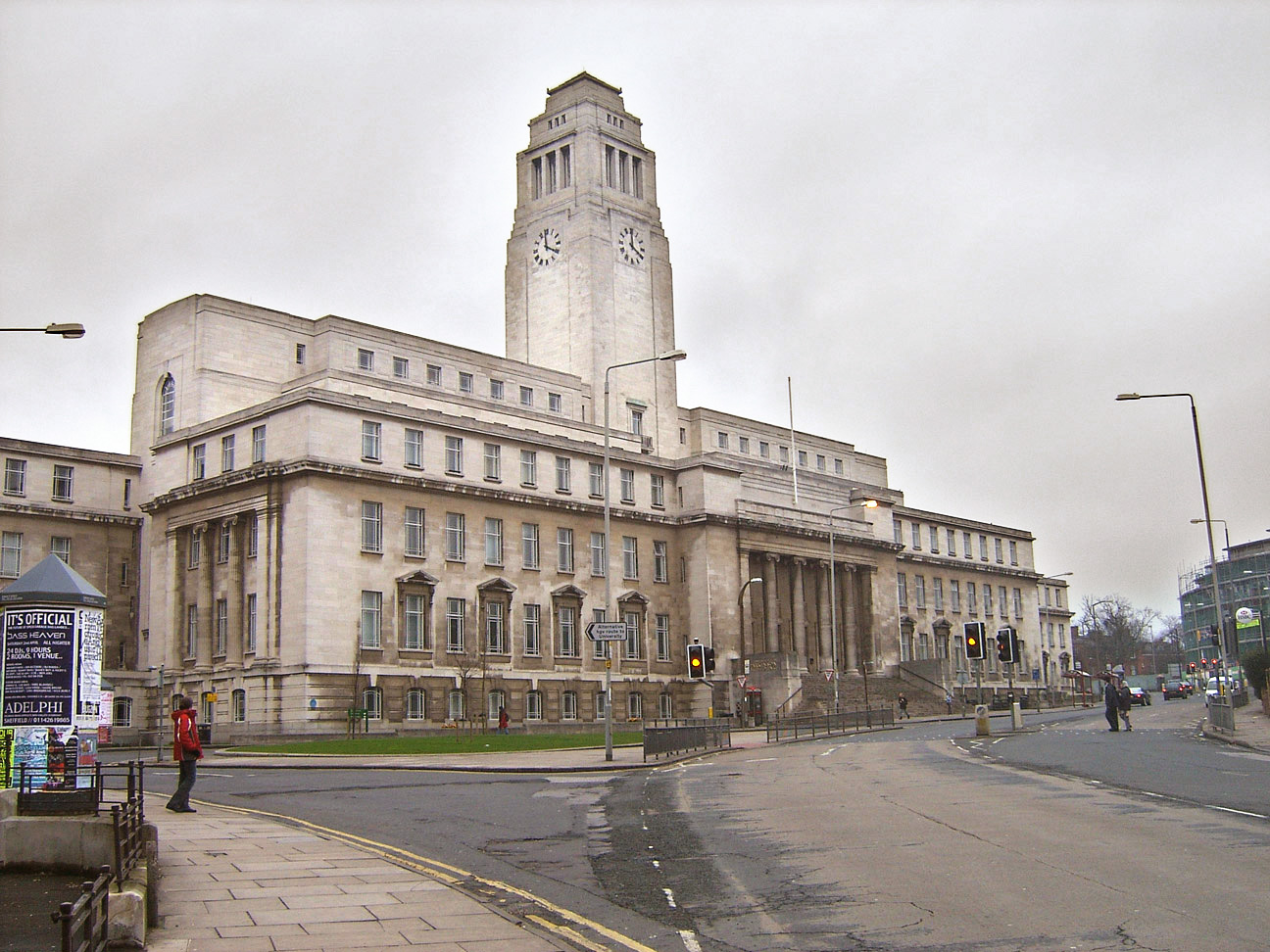 the Parkinson Building, University of Leeds (29/03/2005). Photograph: User:Gunnar Larsson